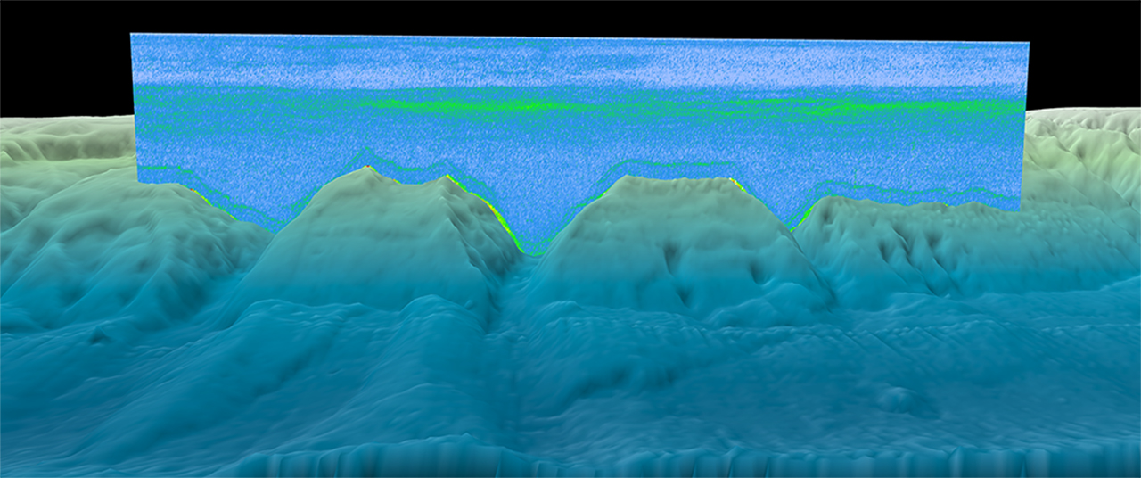 Static image of a sonar scan conducted by the NOAA Okeanos Explorer in the North Atlantic Ocean. The backscattered signal (green) above the bottom is likely the deep scattering layer.